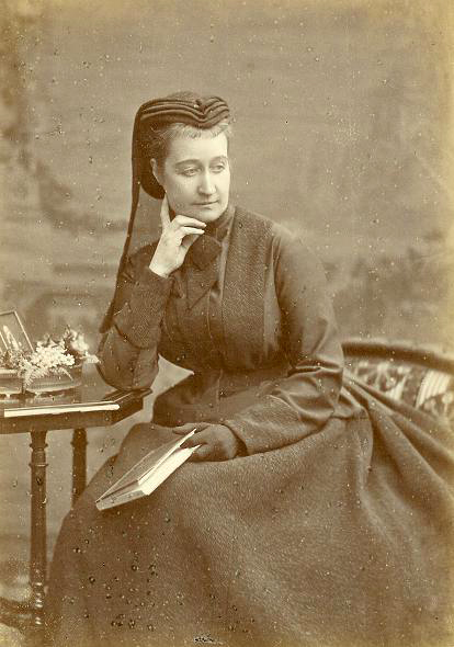 Empress Eugénie of France in mourning. Ladin: L'imperatrice Eugenia di Francia a lutto.